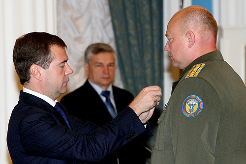 THE KREMLIN, MOSCOW. Ceremony of presenting state decorations to military servicepersons. Colonel Andrei Krasov was awarded the title of Hero of Russia.